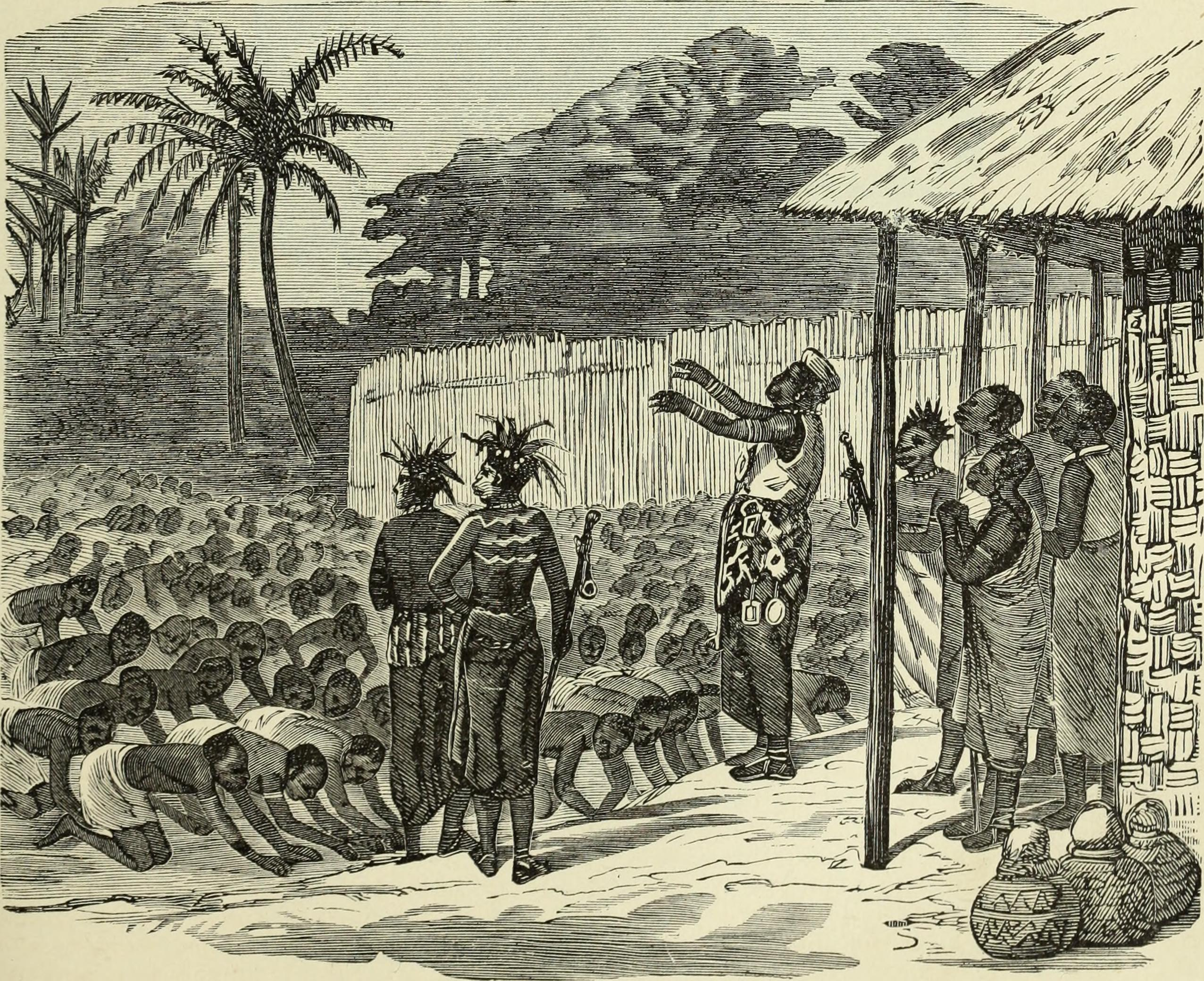 Title: The uncivilized races of men in all countries of the world; being a comprehensive account of their manners and customs, and of their physical, social, mental, moral and religious characteristics. By Rev. J. G. Wood... With new designs by Angas, Danby, Wolf, Zwecker... 1871 Year: 1877 (1870s) Authors: Wood, John George, 1827-1889 Subjects: Ethnology. Manners and customs. Savages Publisher: J. B. Burr and company Text Appearing Before Image: (1.) WASHING DAY.(See page 648.) Text Appearing After Image: (2.) A CONGO CORONATION.(See page 616.) (617) m\ TATE OF TEMBAKDUMBA. 619 fierce and bloodthirsty was Tembandumba,even as a girl, that her mother gave her thecommand of half the troops, the naturalconsequence of which was that she took thecommand of the whole, deposed her mother,and made herself queen. Her great ambition was to found a nationof Amazons. Licentiousness she permittedto the fullest extent, but marriage wasutterly prohibited; and, as soon as thewomen found themselves tired of their malecompanions, the latter were killed and eaten,their places being supplied by prisoners ofwar. All male children were killed, andshe had nearly succeeded in the obiect of her ambition, when she was poisoned by ayoung man with whom she fell violently inlove, and from whom she imprudently ac-cepted a bowl of wine at a banquet. It is very remarkable that, about a hun-dred years after the death of Temband-umba, another female warrior took thekingdom. Her name was Shinga, and sheobtained a power s